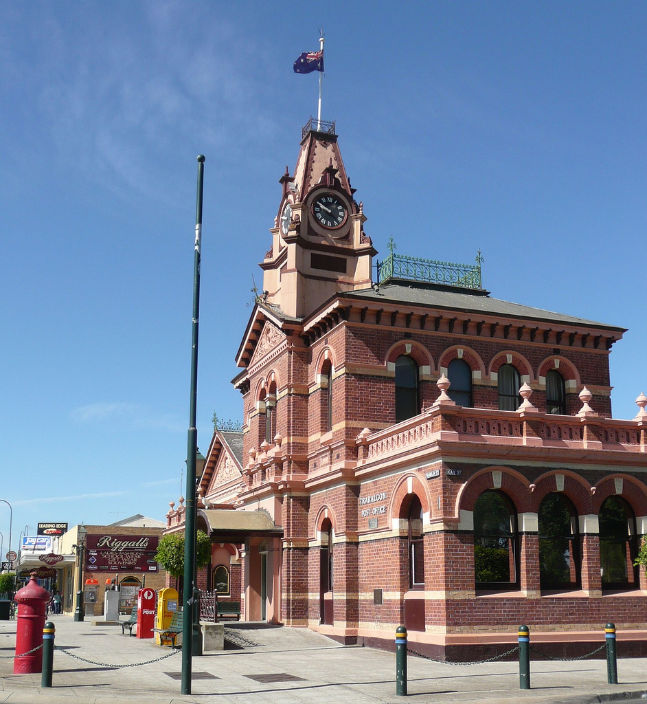 The Traralgon Courthouse and Post Office complex was built in Victorian Italianate style in 1886.